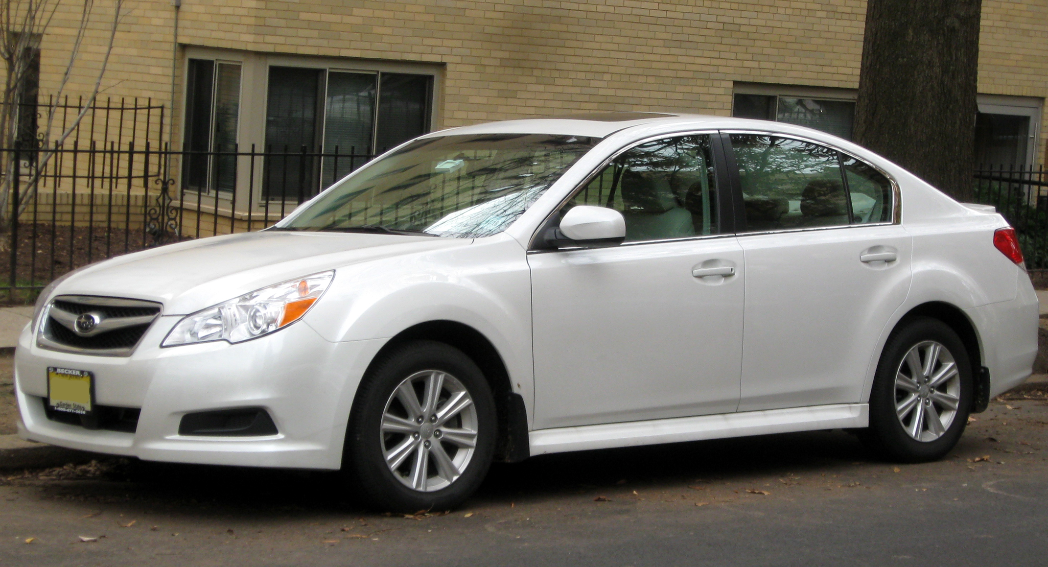 2010-2012 Subaru Legacy photographed in Washington, D.C., USA.